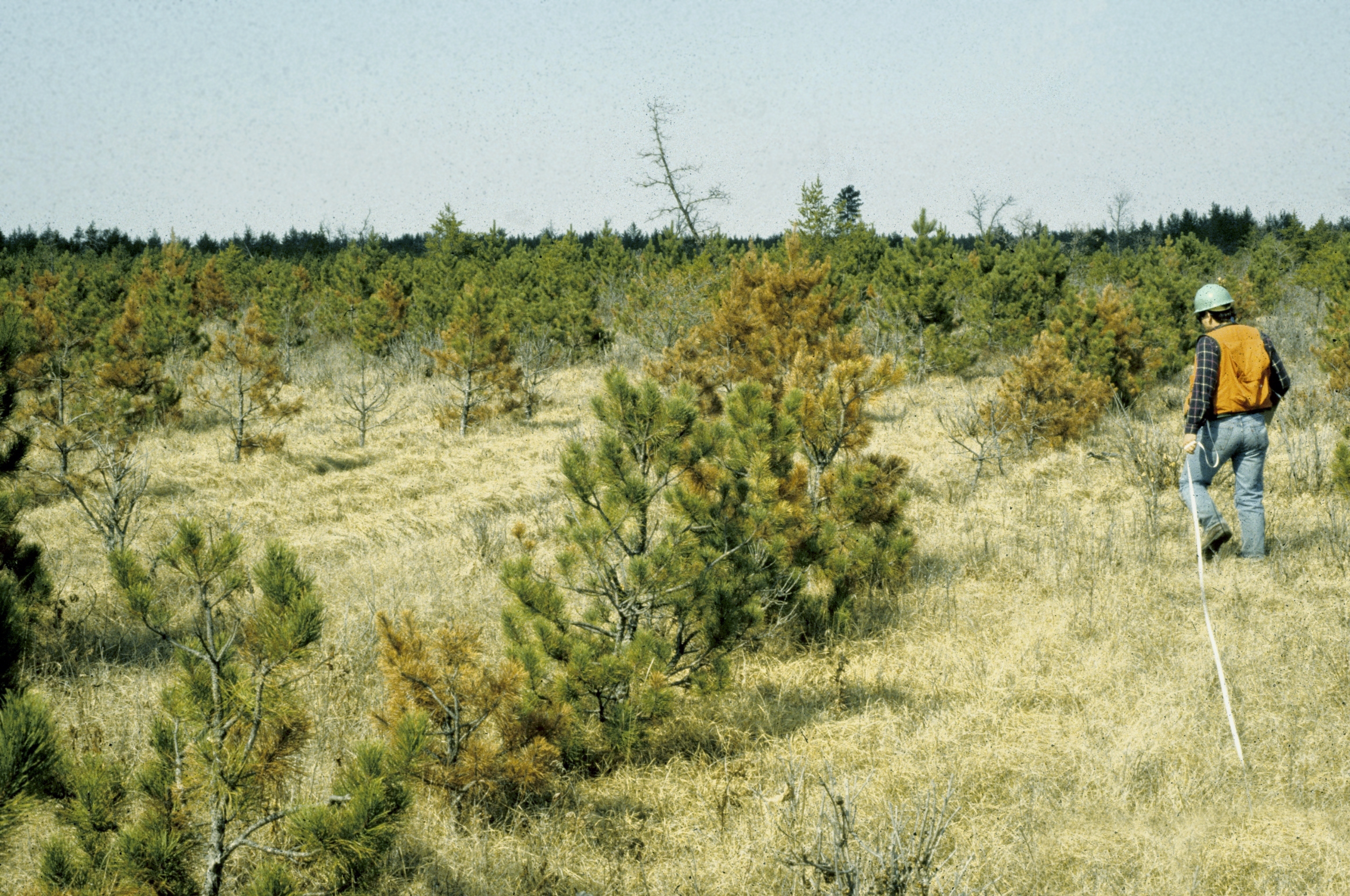 Setting up Diplodia shoot blight impact plots in a young red pine stand.(Pinus resinosa Soland), Wisconsin, United States